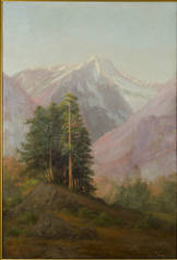 Hill'soil on canvas painting of Mount Booker, 1903.